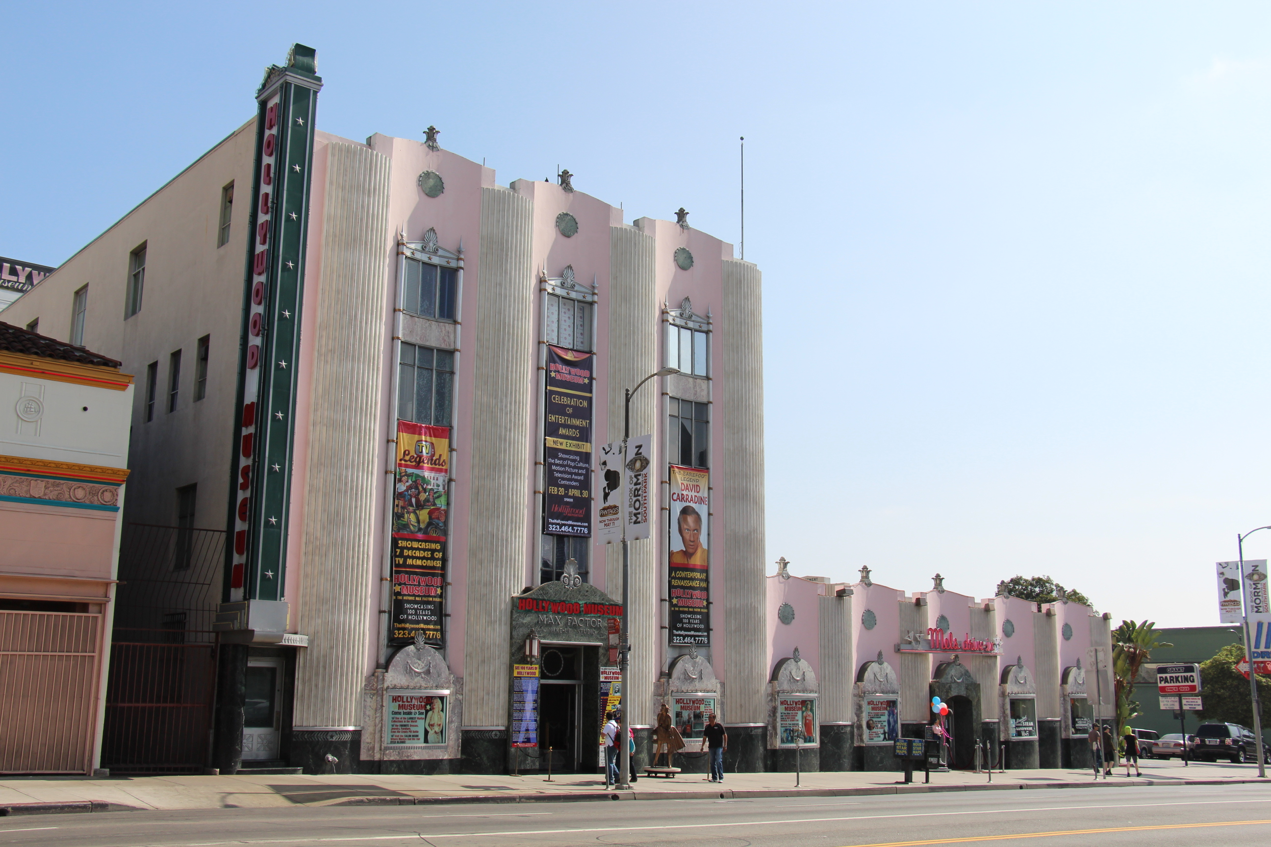 Max Factor building, 1660 N. Highland Ave. (at Hollywood Blvd) in Los Angeles, California